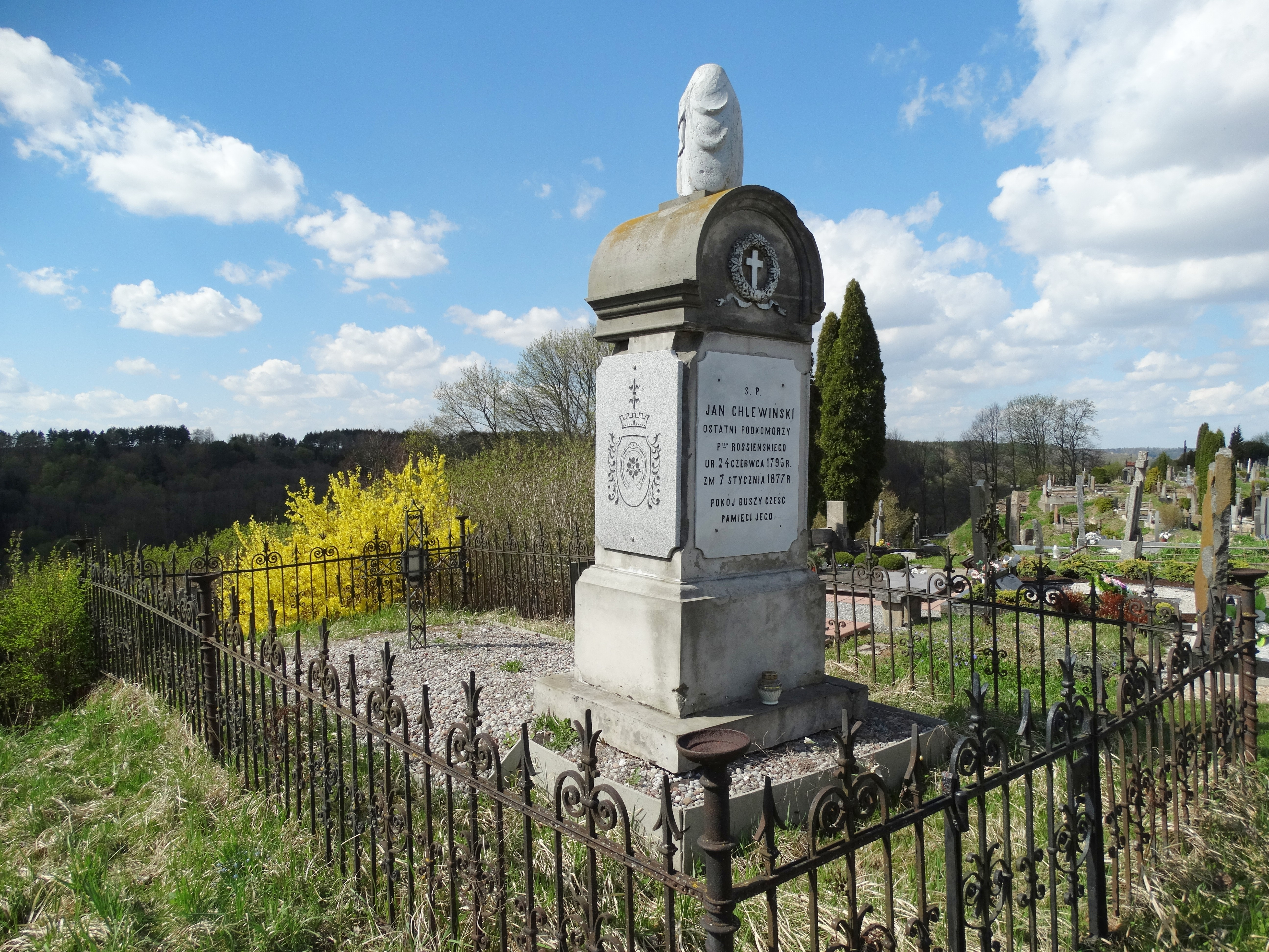 Chlewinski family tomb, old cemetery, Ariogala, Raseiniai district, Lithuania